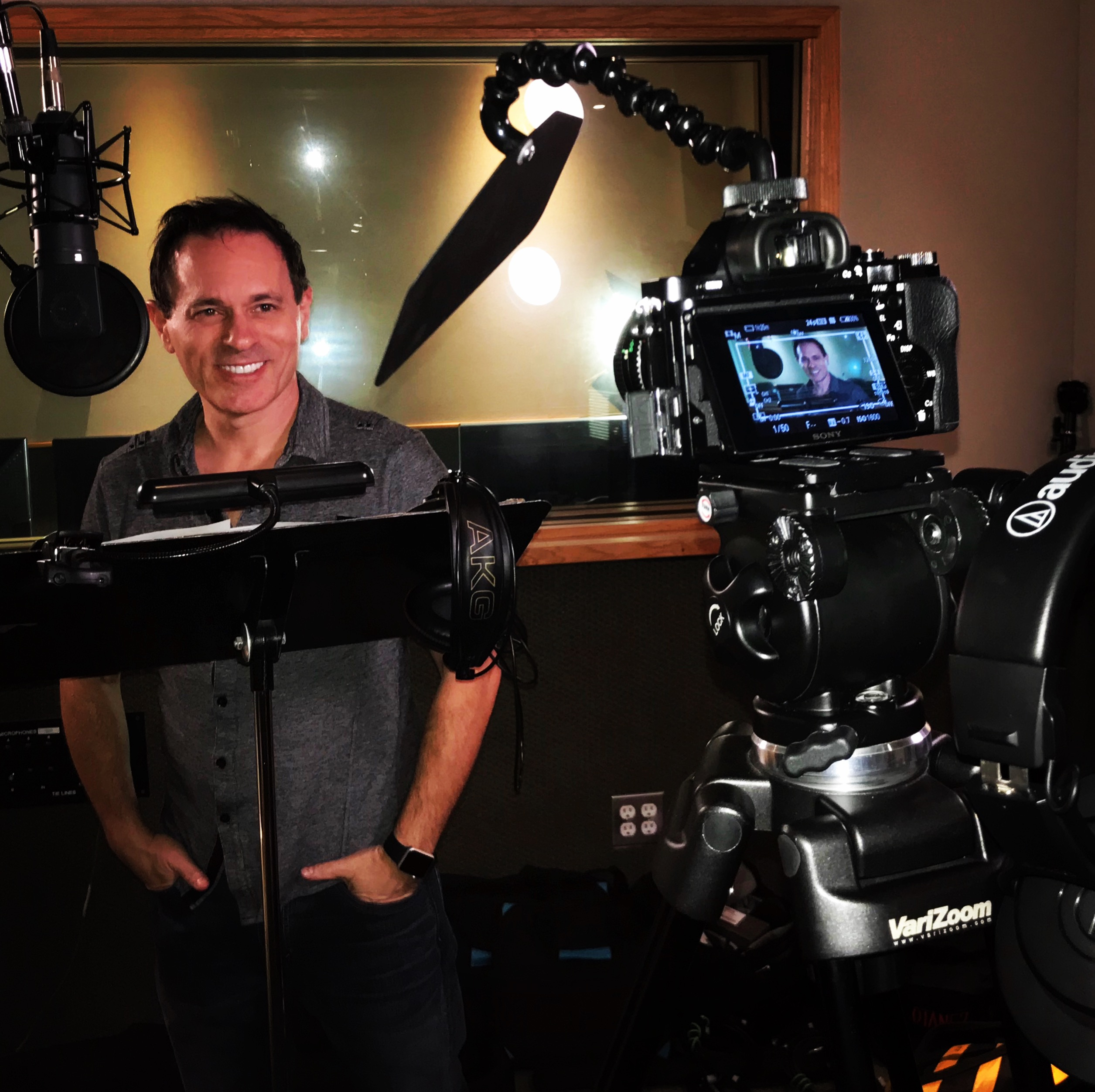 Joshua Seth filming the Digimon movie in 2018